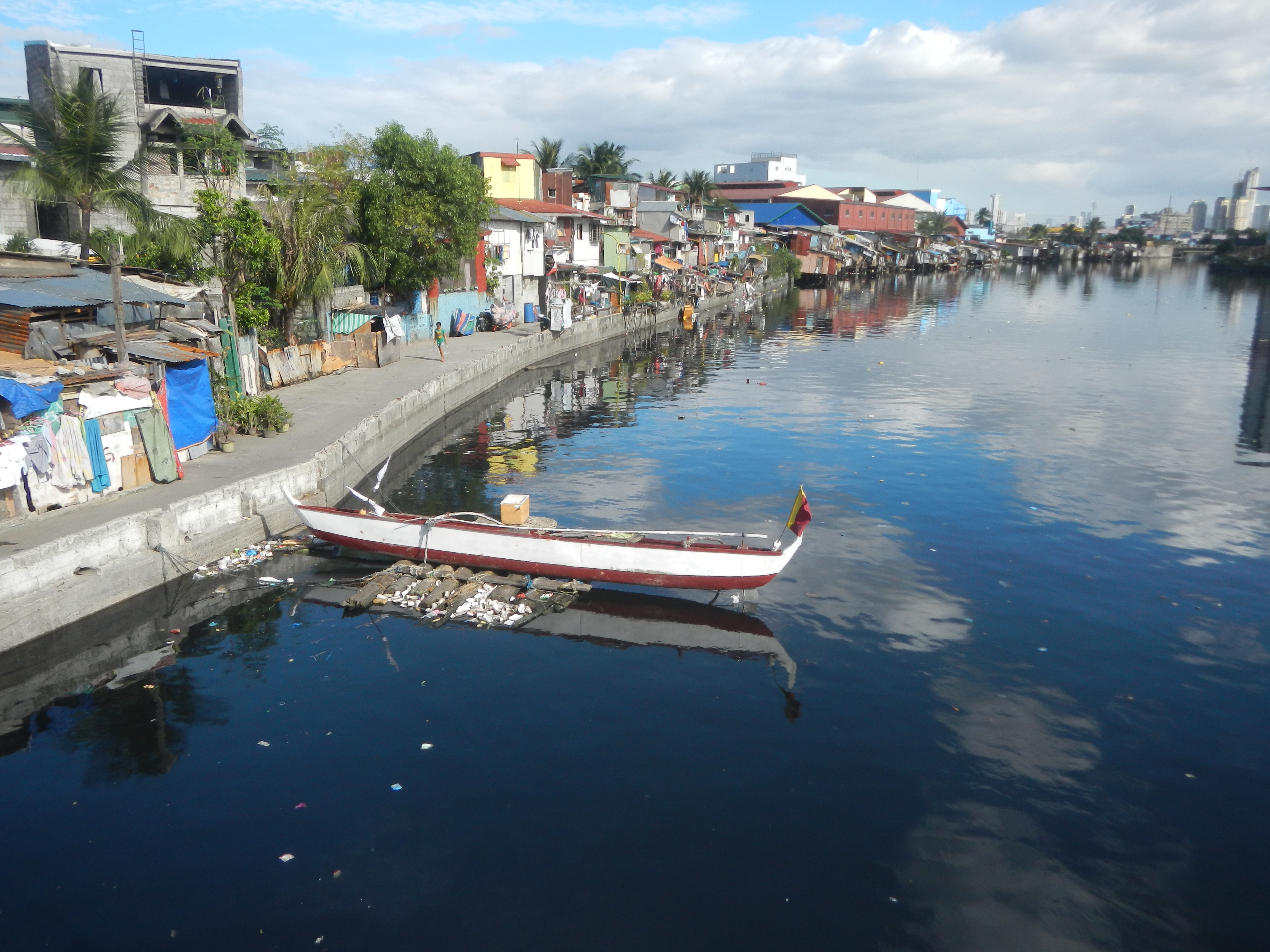 R-10 Bridge I (Estero de Vitas) 20 metric tons load limit Marcos Road or Radial Road 10 or R-10, Radial Road 10 (Manila) 14°36'35"N 120°57'29"E Radial Road 10 is a 6-10 lane in Legislative districts of Manila, North Bay Tondo, Manila, City of Manila Slums in Manila, Two esteros in Manila rehabilitated Vitas Street 14°37'31"N 120°57'46"E Estero de Vitas (Vitas Mouth) 14°37'60" N 120°58'1" E ~1m asl 23:15 PHT UTC/GMT+8 Rodriguez Bridge (Estero de Vitas) Load limit 20 metric tons KM 7+074.5 Rodriguez Street corner Honorio Lopez Boulevard Vitas Pumping station towards Balut Pumping Station MMDA, Del Fierro Bridge Estero de Sunog Apog, Balut List of roads in Metro Manila Balut 14°38'2"N 120°57'44"E Gagalangin, Tondo 14°37'34"N 120°58'16"E in the List of barangays of Metro Manila, Legislative districts of Manila a) Barangays 94, 95, 96, 97, Zone 8, 133, Zone 11, District II, Tondo, Manila, to b) Barangays 161, Zone 14, 173, 174 and 179, Zone 14 District II, Gagalangin, Tondo, Manila, c) Barangays 172, Zone 15, District II, Gagalangin, Tondo, Manila d) Barangays 126 & 127, Zone 10, Balut, Tondo, Manila d) Barangays 129, 130, 131, Zone 11, 139, 140, Zone 12, District I, Balut, Tondo, Manila e) Barangay 128, Zone 10, Smokey Mountain, Tondo, Manila Tondo, Manila, City of Manila, surrounded by List of rivers and estuaries in Metro Manila (Note: Judge Florentino Floro, the owner, to repeat, Donor Florentino Floro of all these photos hereby donate gratuitously, freely and unconditionally all these photos to and for Wikimedia Commons, exclusively, for public use of the public domain, and again without any condition whatsoever).